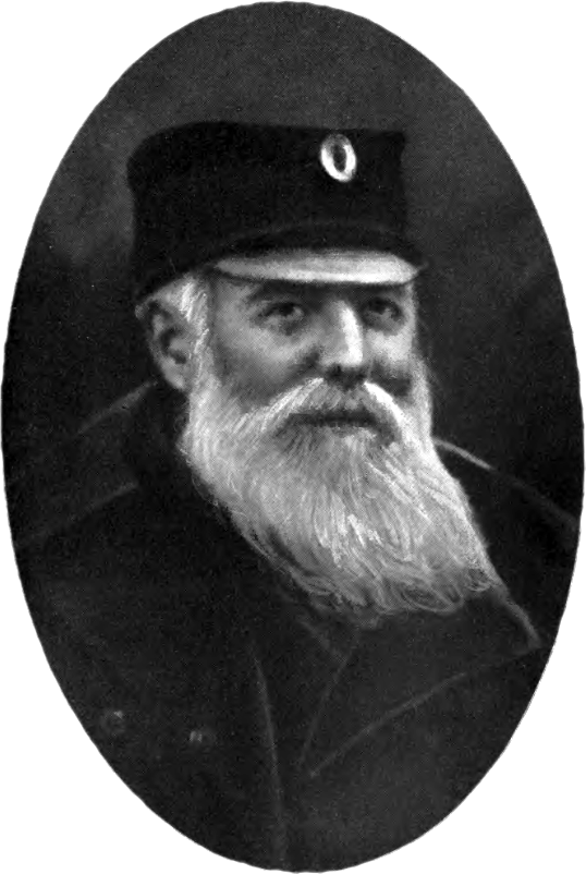 Serbian politician and Primer Minister Nikola Pašić